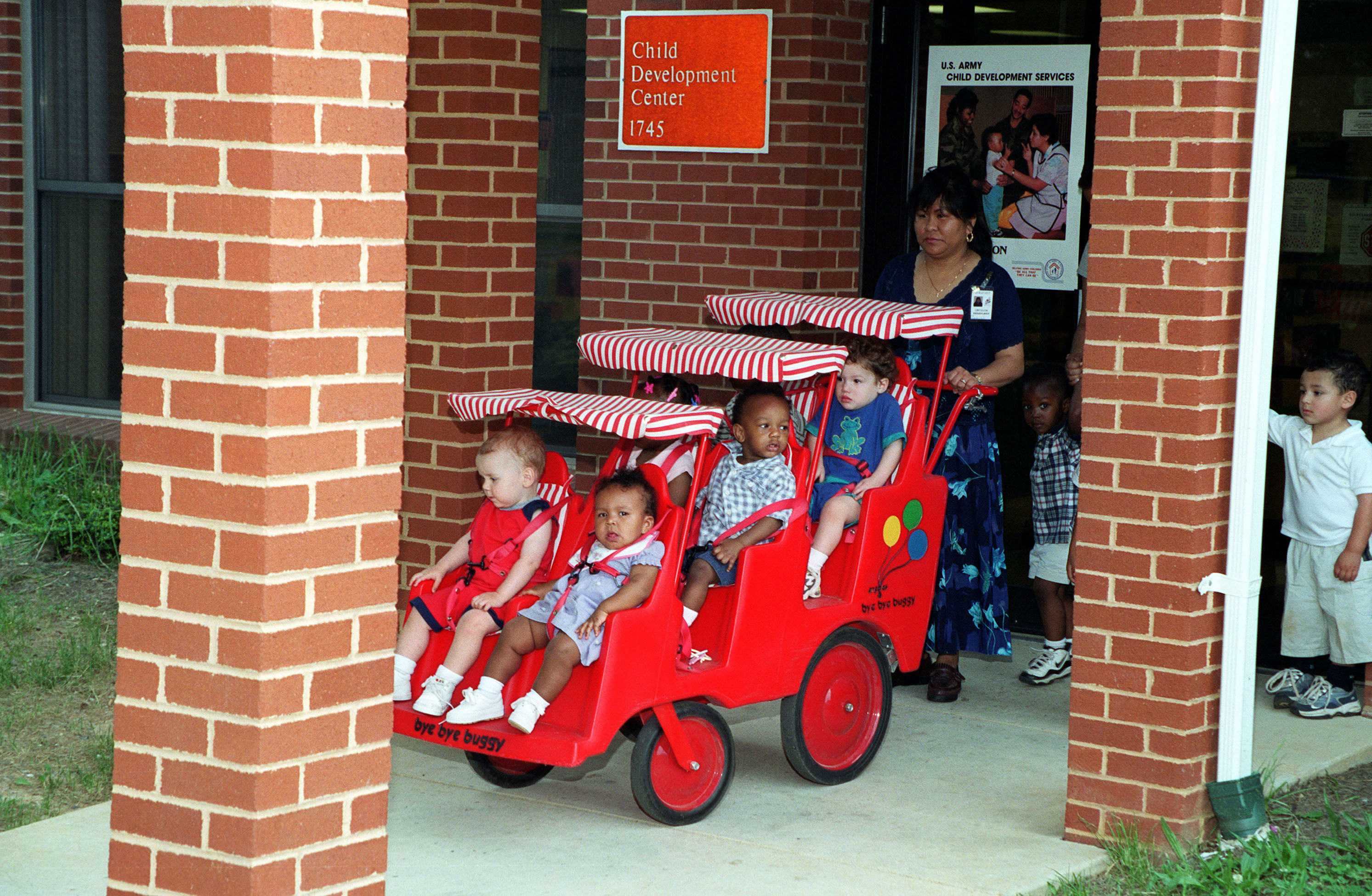 Military dependent children at this Child Development Center at Fort Belvoir, Va., and others like it at bases throughout the world enjoy some of the most affordable and high-quality child care in the country according to the National Women's Law Center. Secretary of Defense William S. Cohen was presented a copy of the study entitled "Be All That We Can Be: Lessons from the Military for Improving Our Nation's Child Care System" by Nancy Campbell, co-director of the center, in a Pentagon press briefing on May 16, 2000. The Center cited the military in their report as an "...excellent model for the very real reforms that need to be made in civilian child care policy and practice as well."